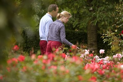 Genieten van de vele rozen in het rosarium